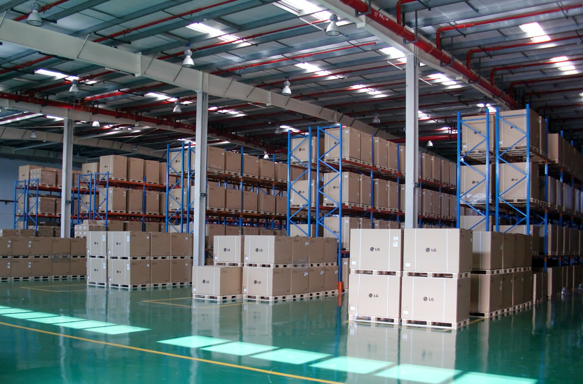 Pantos Logistics - Warehouse